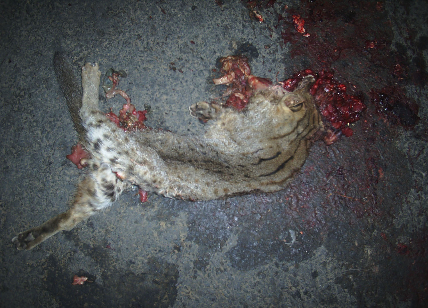 rusty spotted cat roadkill in kadapa_M4031P-4201